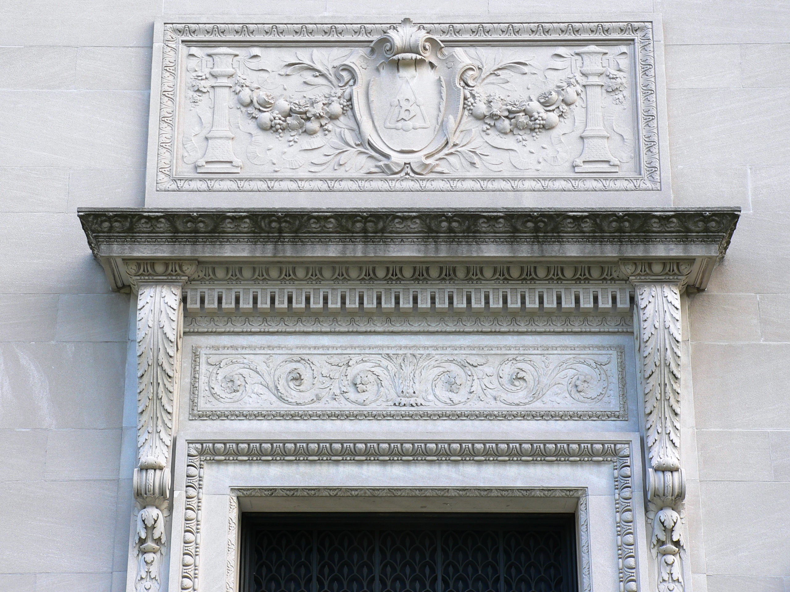 I took this photo of the Yale Berzelius Society front door in June 2007.